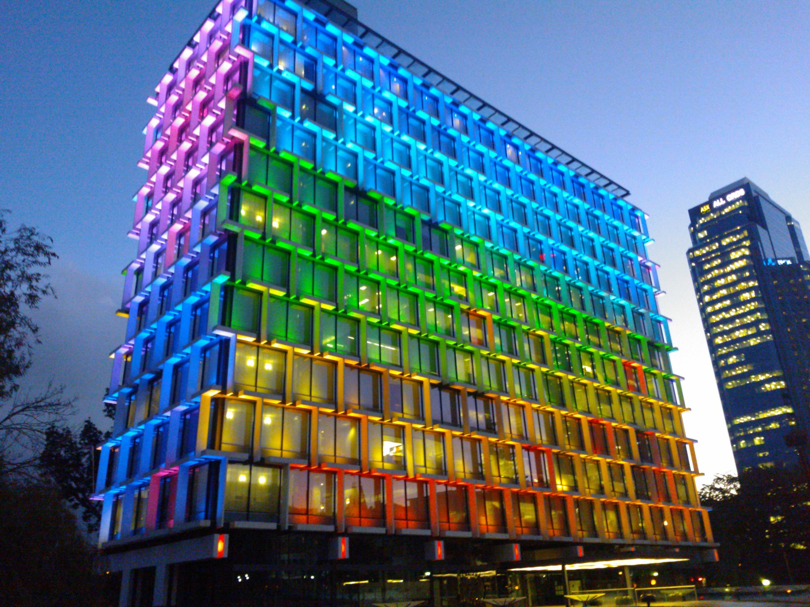 Council House, Perth, shown illuminated at night in August 2012.